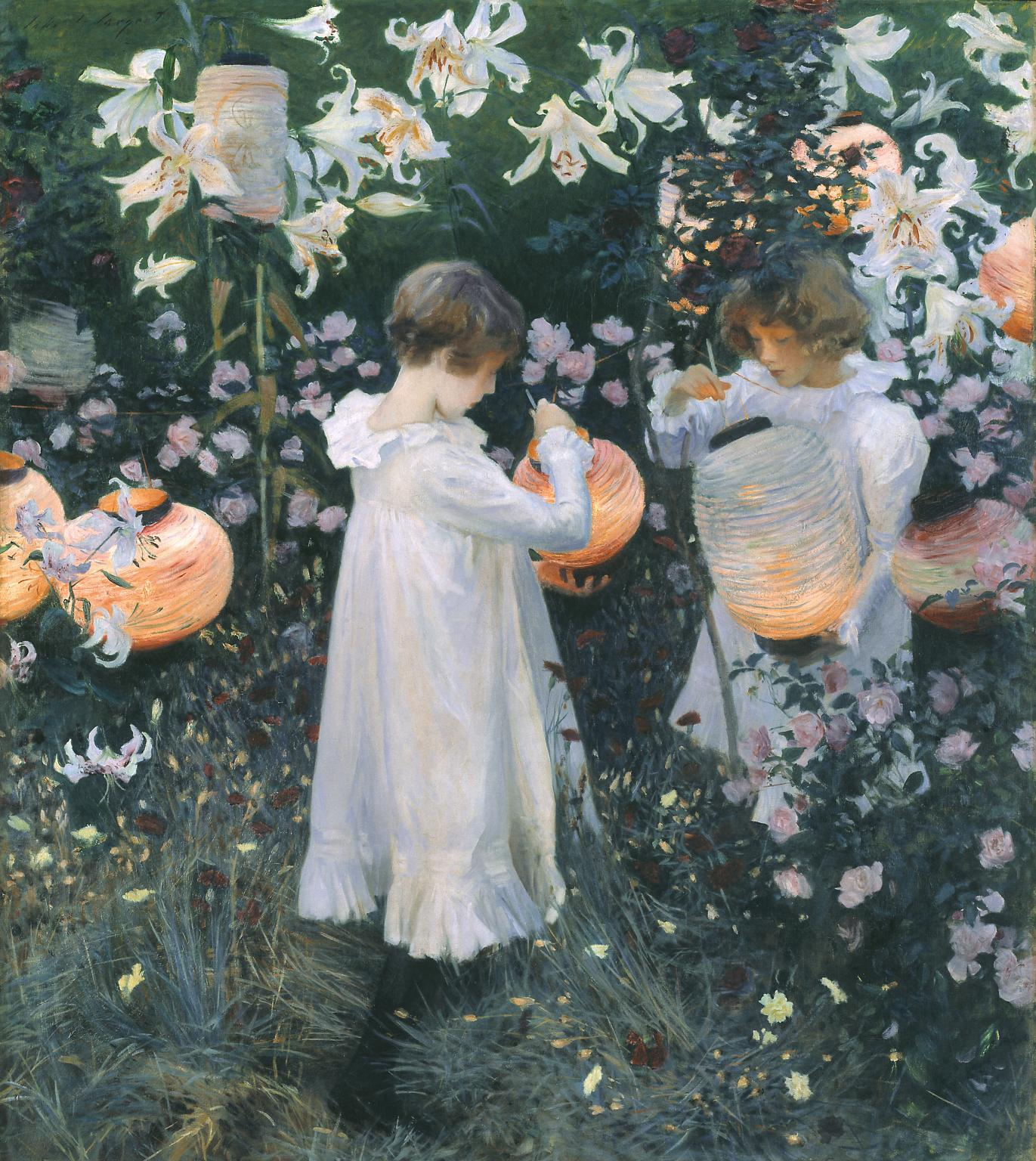 The painting is set in an English garden in Broadway in the Cotswolds, where John Singer Sargent spent the summer of 1885. Sargent wanted to capture the exact level of light at dusk so he painted the picture out of doors, in the Impressionist manner. Every day in a period in the summer and autumn he painted in the very few minutes when the light was perfect. The following summer he resumed painting and finally finished by the end of October 1886. The girls are Dolly and Polly Barnard. Their father was the illustrator Frederick Barnard - a friend of Sargent's. The title comes from the refrain of a popular song "Ye Shepherds Tell Me" by Joseph Mazzinghi.